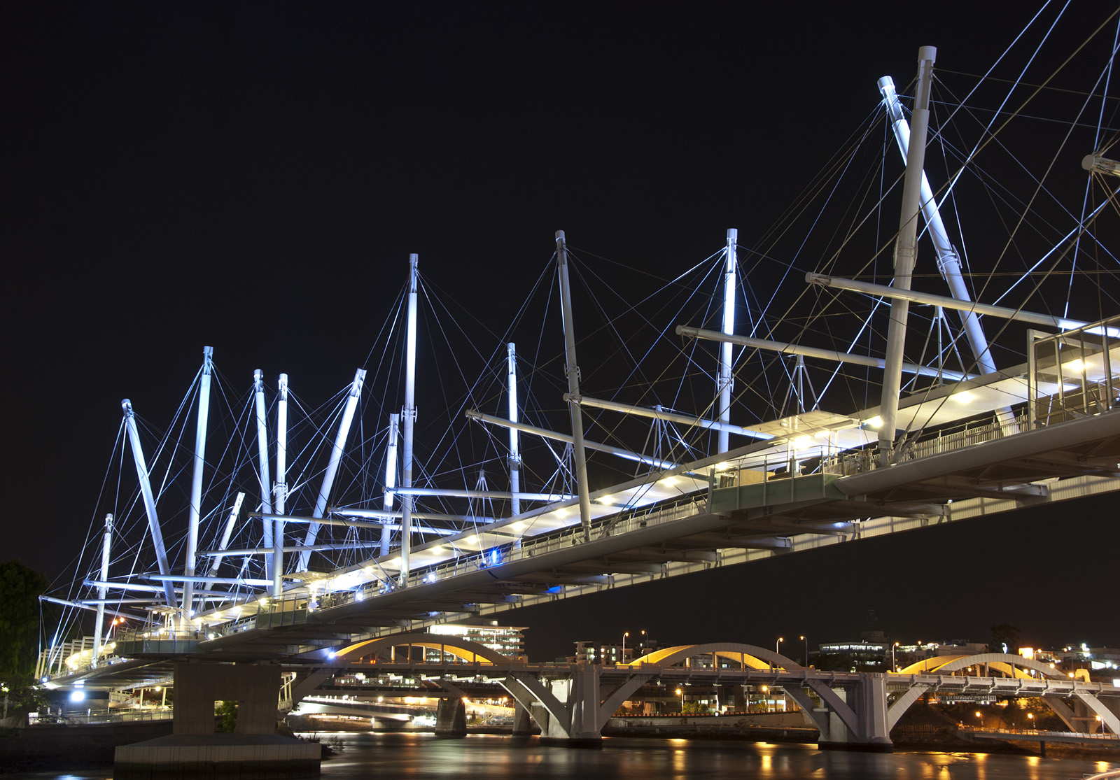 Brisbane